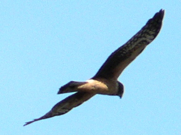 Northern Harrier 1st year juvenile